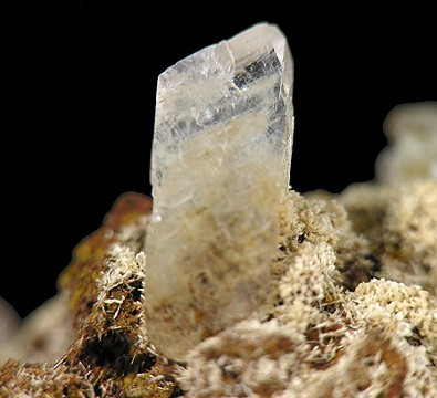 Tarbuttite Locality: Kabwe Mine (Broken Hill Mine), Kabwe (Broken Hill), Central Province, Zambia (Locality at ) Size: 2.6 x 2.2 x 1.7 cm. A fine thumbnail specimen of the rare zinc phosphate Tarbuttite which is loaded with sharp, transparent to translucent, colorless triclinic tabular crystals on gossan matrix. The largest crystal measures 8 mm, which is good size for Tarbuttite. The Broken Hill mine (also called the Kabwe mine), in Zambia, not Australia, is the type locality for Tarbuttite, and has certainly produced some of the finest specimens of the species extant. Ex. Richard Kosnar Collection.